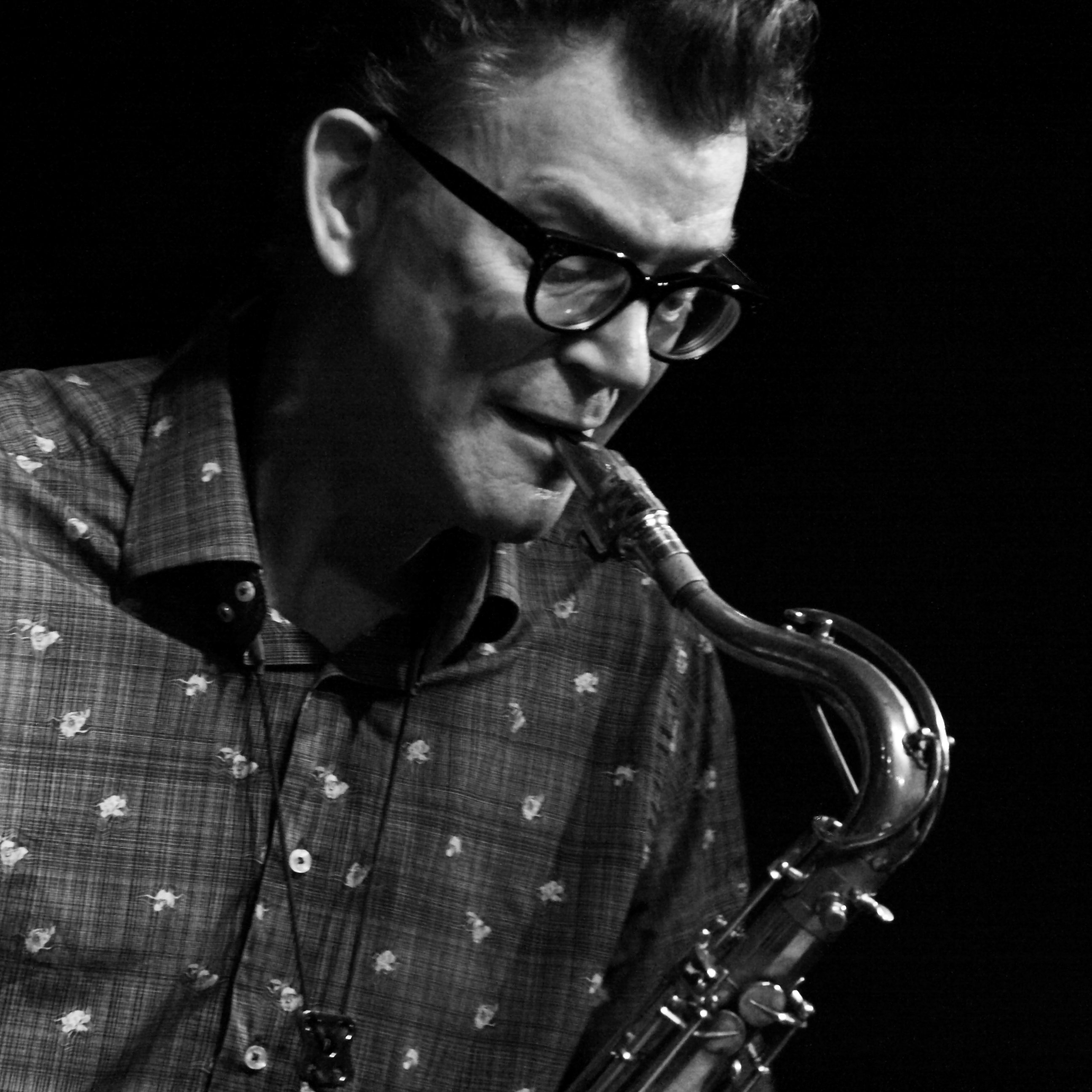 Ab Baars with Ab Baars Trio at Club W71, Weikersheim.